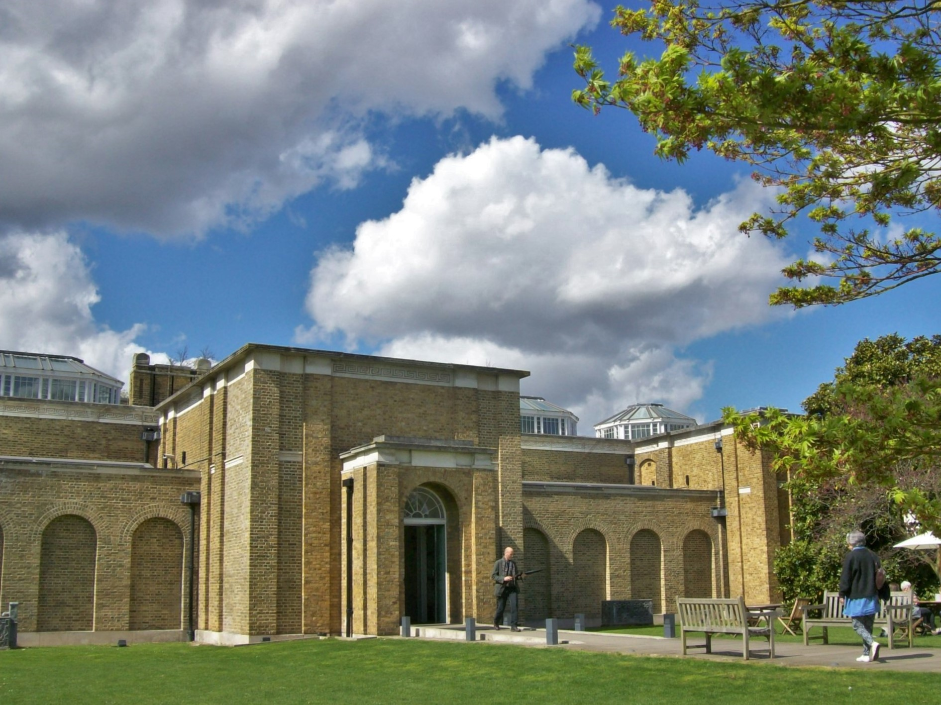 Dulwich Picture Gallery, main entrance